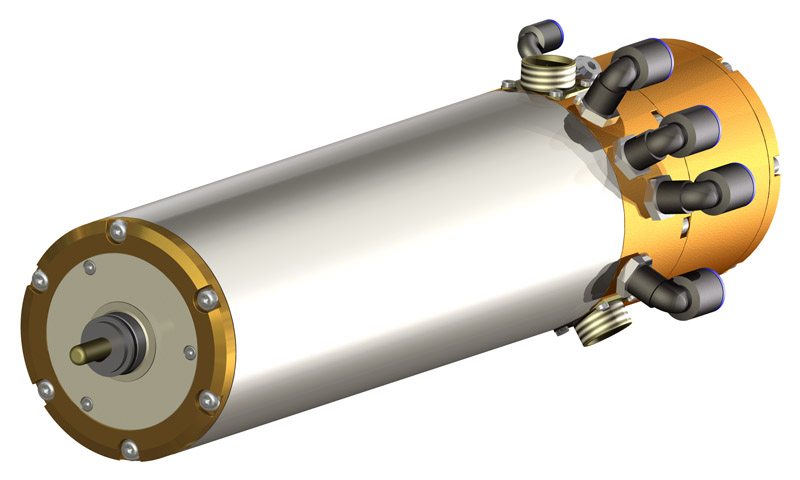 Air Bearing Spindle